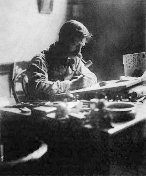 W. W. Denslow (1856–1915) at his desk in 1900